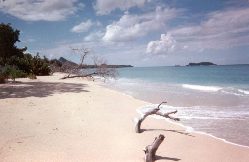 Hillsborough, Carriacou, Grenada, West Indies... view from the Catholic Presbytery over the beach to the south. Photo taken by Jack Regan, October 2001.